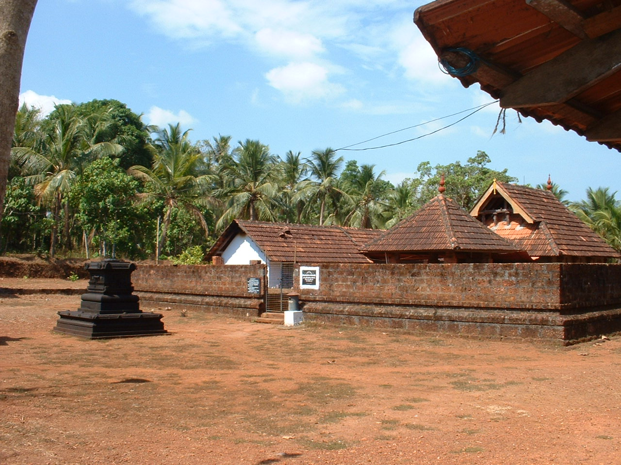 This is an earlier image of the temple which has undergone several improvements recently.